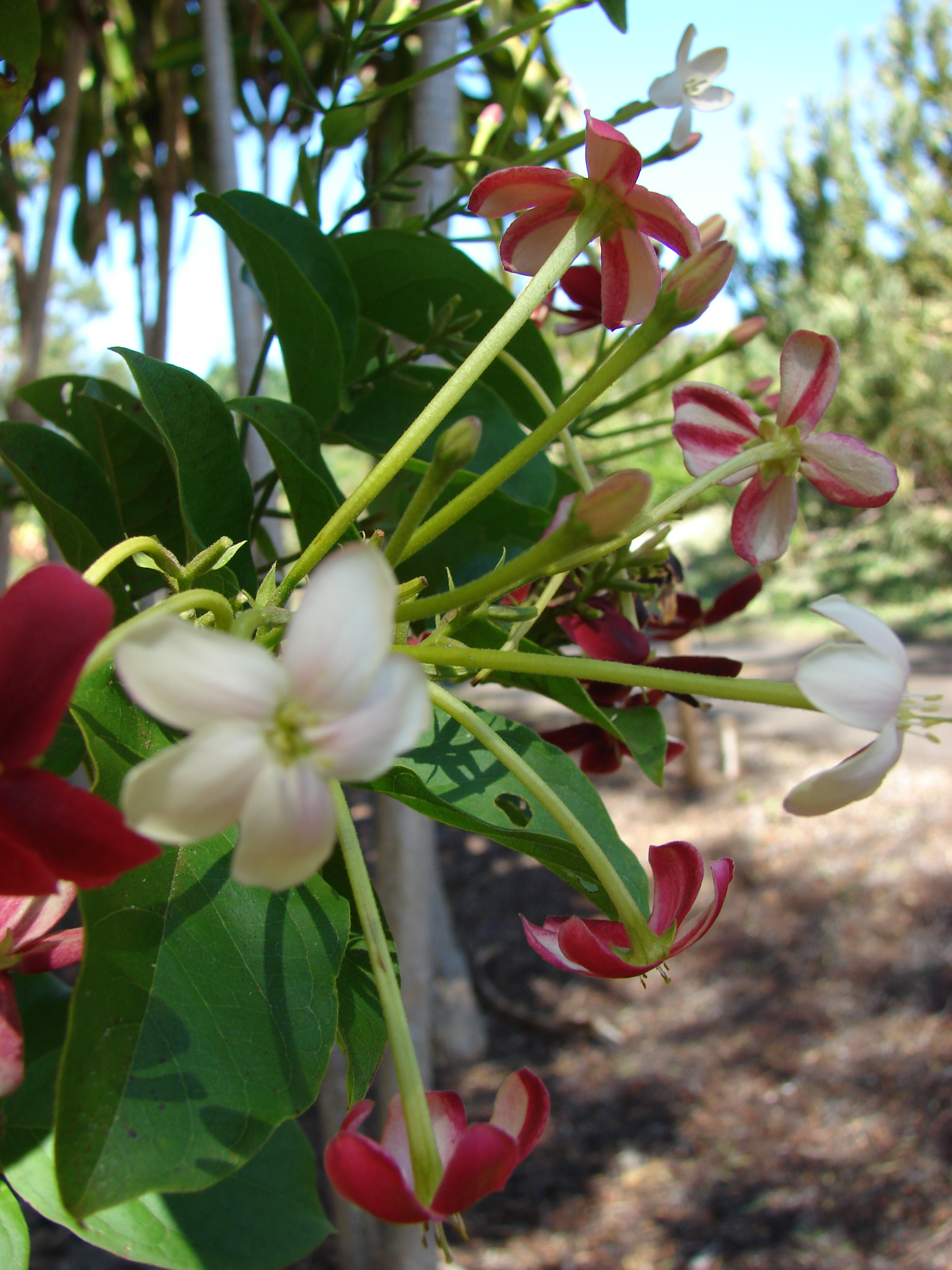 Quisqualis indica (flowers and leaves). Location: Maui, Enchanting Floral Gardens of Kula